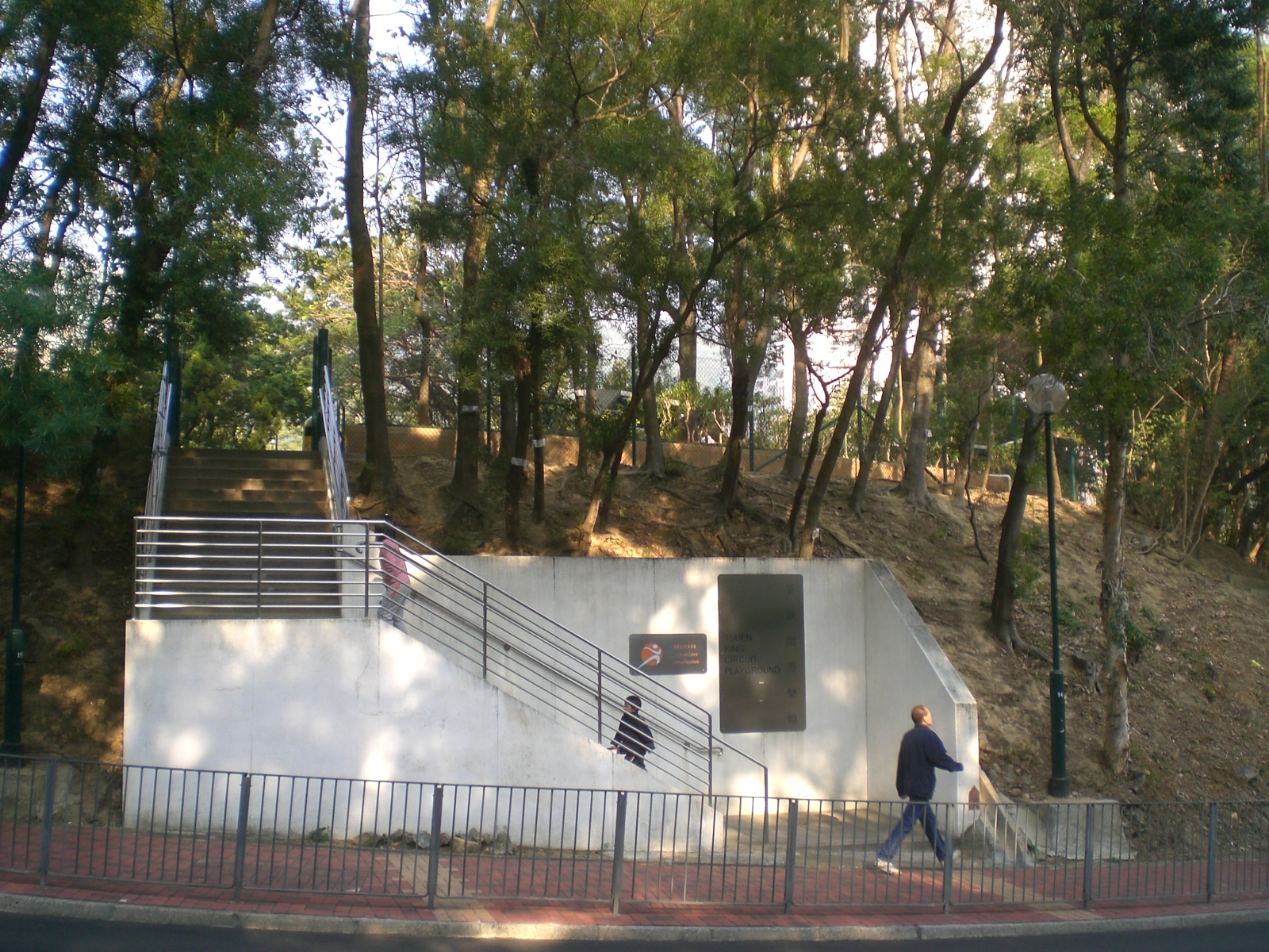 荃灣 荃景圍 荃景圍遊樂場